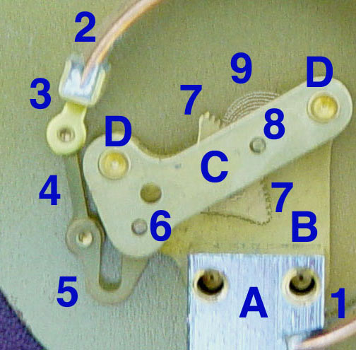 Mechanics of a pressure gauge, annotated Annotated internals of a pressure gauge, contrast enhanced. Mechanical details Stationary parts: A: Receiver block. This joins the inlet pipe to the fixed end of the Bourdon tube (1) and secures the chassies plate (B). The two holes receive screws that secure the case. B: Chassies Plate. The face card is attached to this on the opposite side. It contains bearing holes for the axles. C: Secondary Chassis Plate. It supports the outer ends of the axles. D: Posts to join and space the two chassis plates. Moving Parts 1: Stationary end of Bourdon tube. This communicates with the inlet pipe through the receiver block. 2: Moving end of bourdon tube. This end is sealed. 3: Pivot and pivot pin. 4: Link joining pivot pin to lever (5) with pins to allow joint rotation. 5: Lever. This an extension of the sector gear (7). 6: Sector gear axle pin. 7: Sector gear. 8: Indicator needle axle. This has a spur gear that engages the sector gear (7) and extends through the face to drive the indicator needle. Due to the short distance between the lever arm link boss and the pivot pin and the difference between the effective radius of the sector gear and that of the spur gear, any motion of the bourden tube is greatly amplified. A small motion of the tube results in a large motion of the indicator needle. 9: Hair spring to preload the gear train to reduce gear lash and hysteresis.